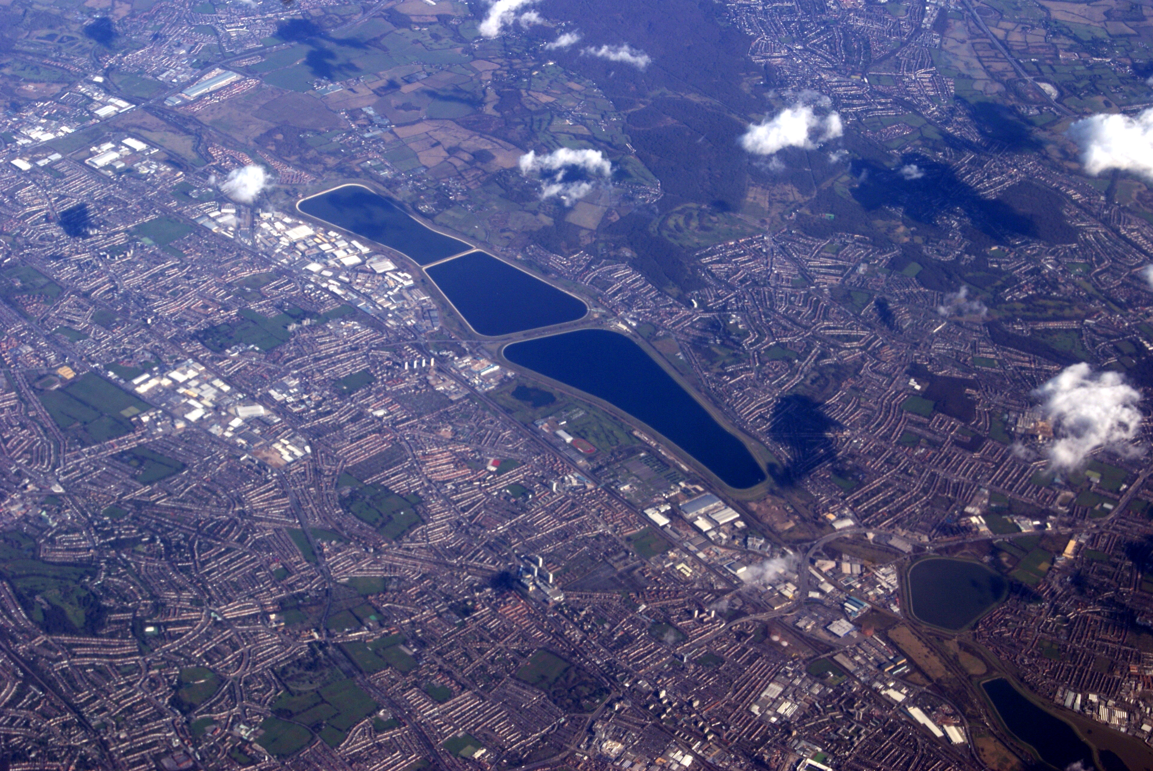 An ariel picture showing part of North London including Edmonton, Ponders End, Brimsdown, Chingford and several reservoirs in the Lee Valley Reservoir Chain. From the top of the photo are the twin basins of the King George V reservoir adjacent to the William Girling reservoir, the circular Banbury Reservoir close by to the Lockwood Reservoir. A section of Epping Forest can be seen to the top right of the photograph